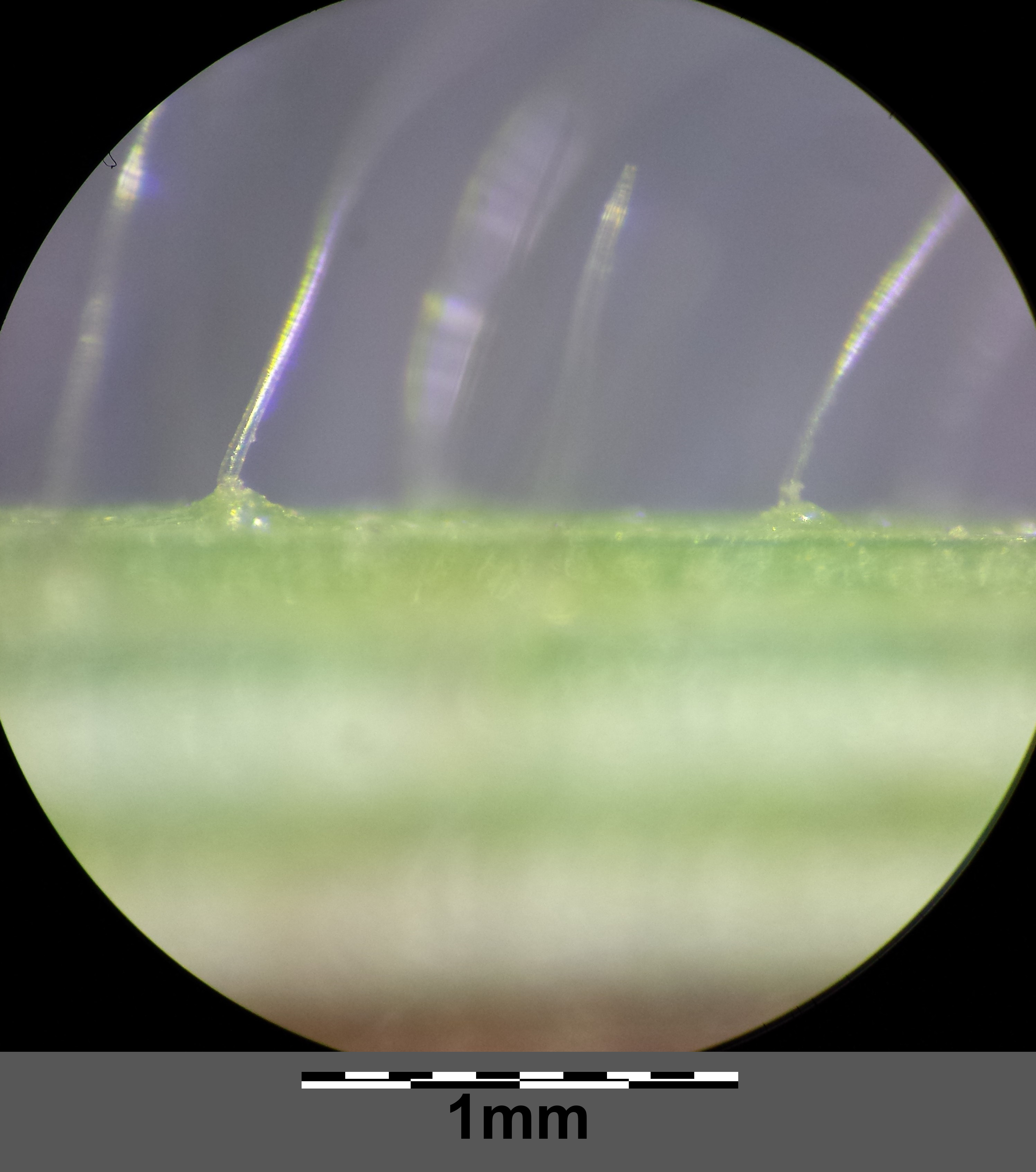 Leaf sheath with hairs Taxonym: Panicum miliaceum subsp. ruderale ss Fischer et al. EfÖLS 2008 ISBN 978-3-85474-187-9 Location: to the north of Oberthern, municipality Heldenberg, district Hollabrunn, Lower Austria - ca. 300 m ü. A. Habitat: field